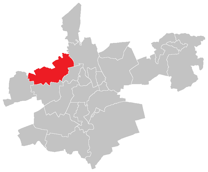 Location map of Olomouc district Řepčín